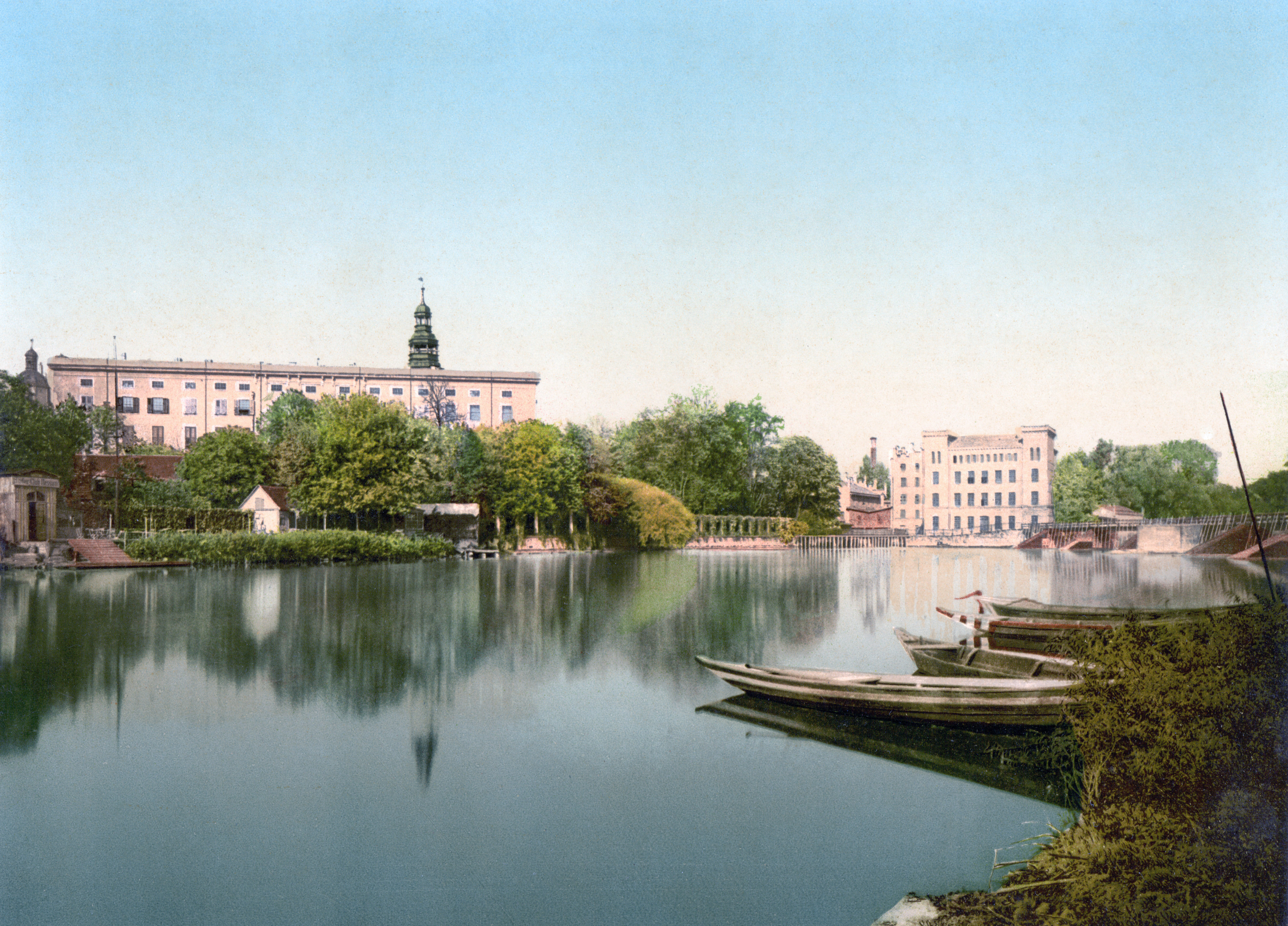 Dessau, (Germany) - Castle seen from the opposite bank of the river Mulde